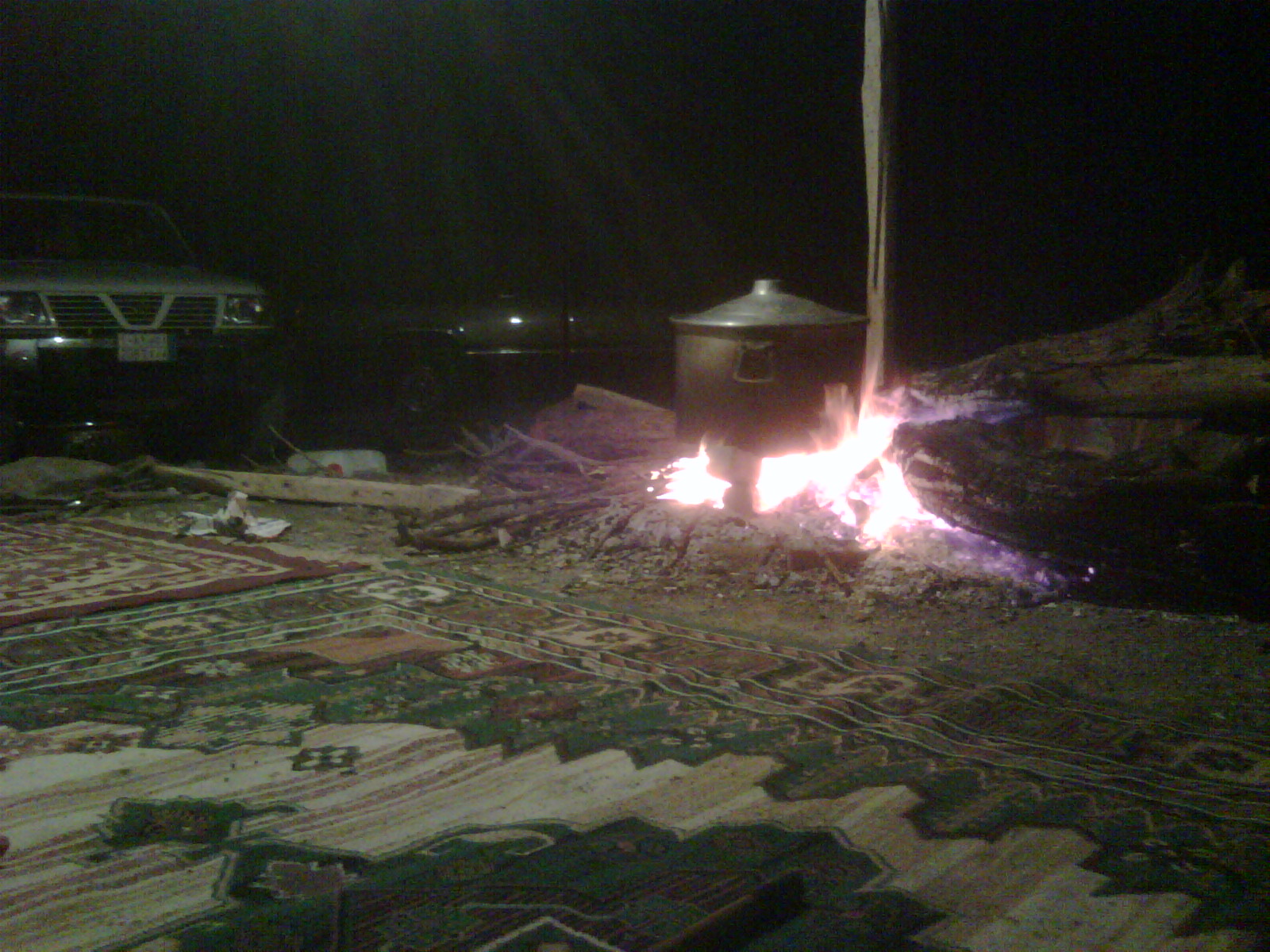 cooking in desert